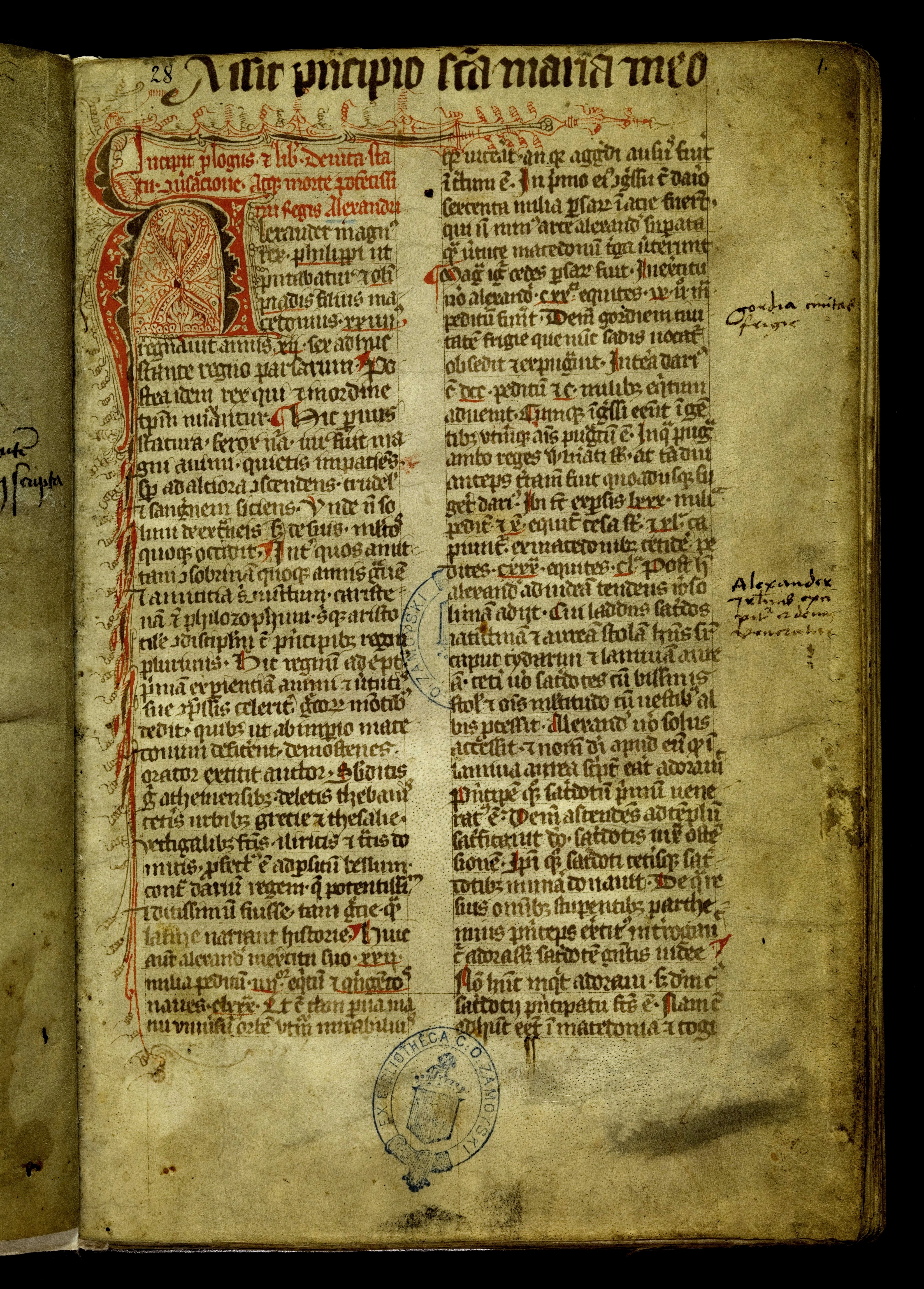 The first page Gallus' Chronicle in the so-called Zamoyski Codex.